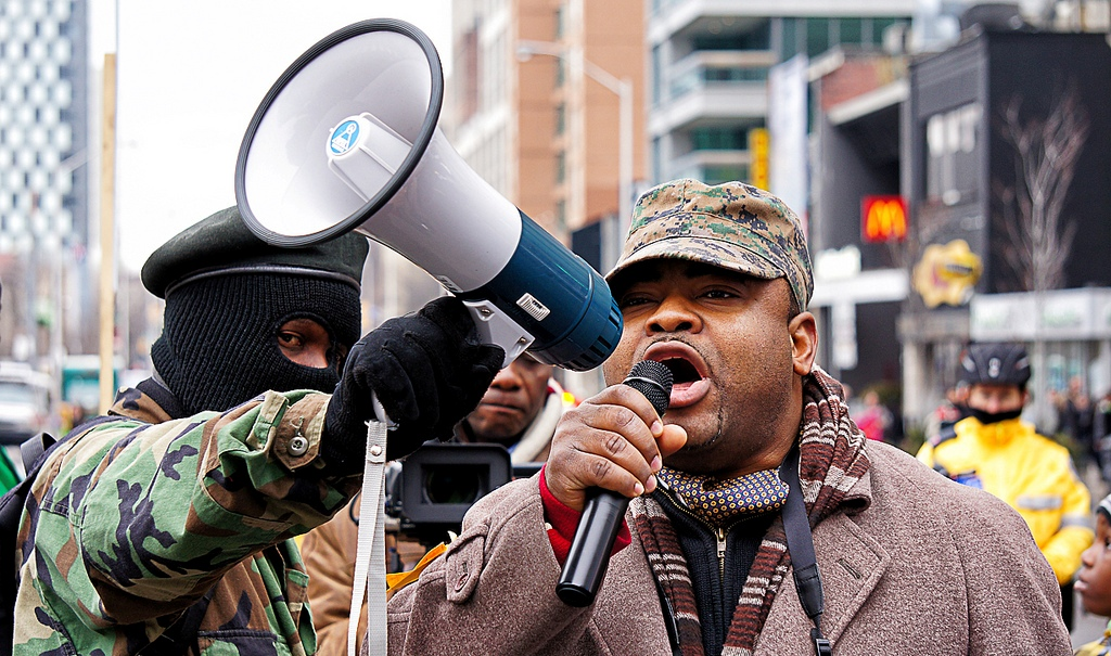 Members of the Congolese community in Toronto protest election results in Congo-Kinshasa, in which President Joseph Kabila was named the winner. Toronto, Ontario, Canada.